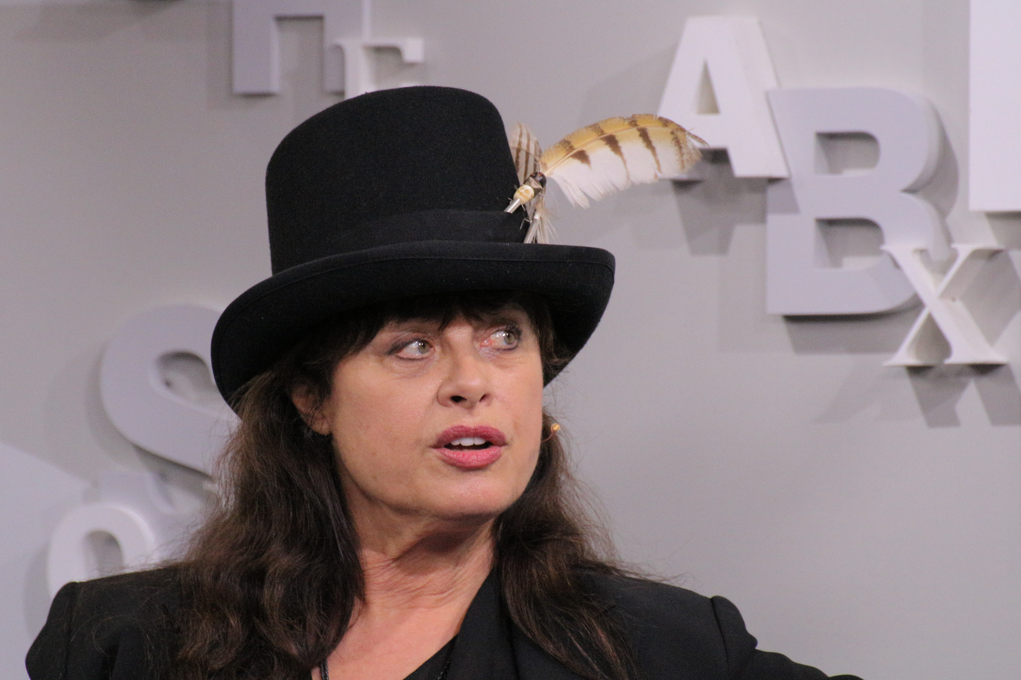 Uschi Obermaier presenting her autobiography on the blue sofa at the 2013 Frankfurt Book Fair